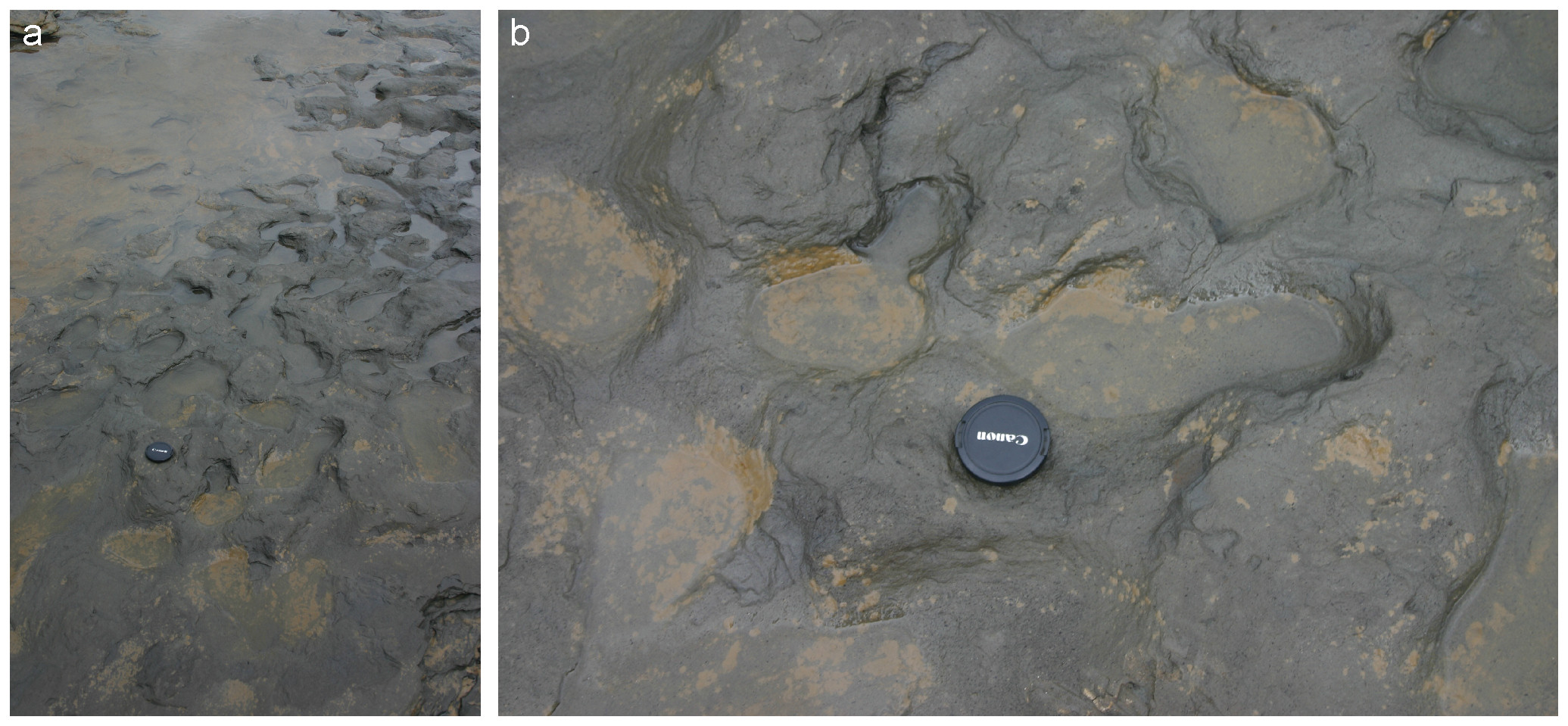 Hominin Footprints from Early Pleistocene Deposits at Happisburgh, UK. Photographs of Area A at Happisburgh. a. Footprint surface looking north-east. b. Detail of footprint surface.